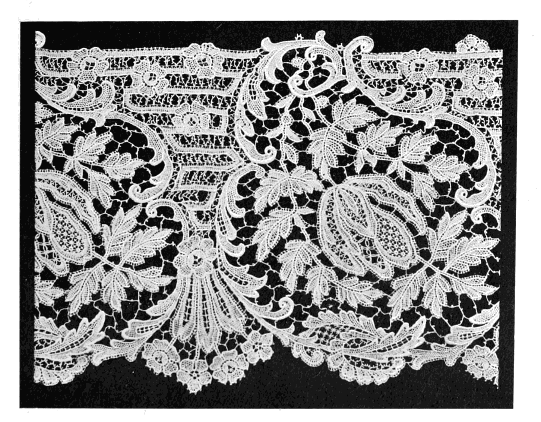 "Imitation Duchesse."